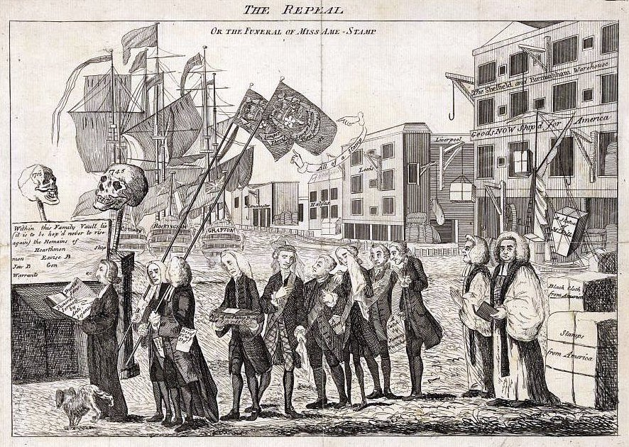 The caption reads: The Repeal, or the Funeral Procession, of Miss America Stamp. Repeal of the Stamp Act The coffin is carried by George Grenville, who is followed by Bute, the Duke of Bedford, Temple, Halifax, Sandwich, and two bishops.